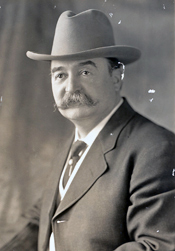 William J. Cary, US Representative from Wisconsin